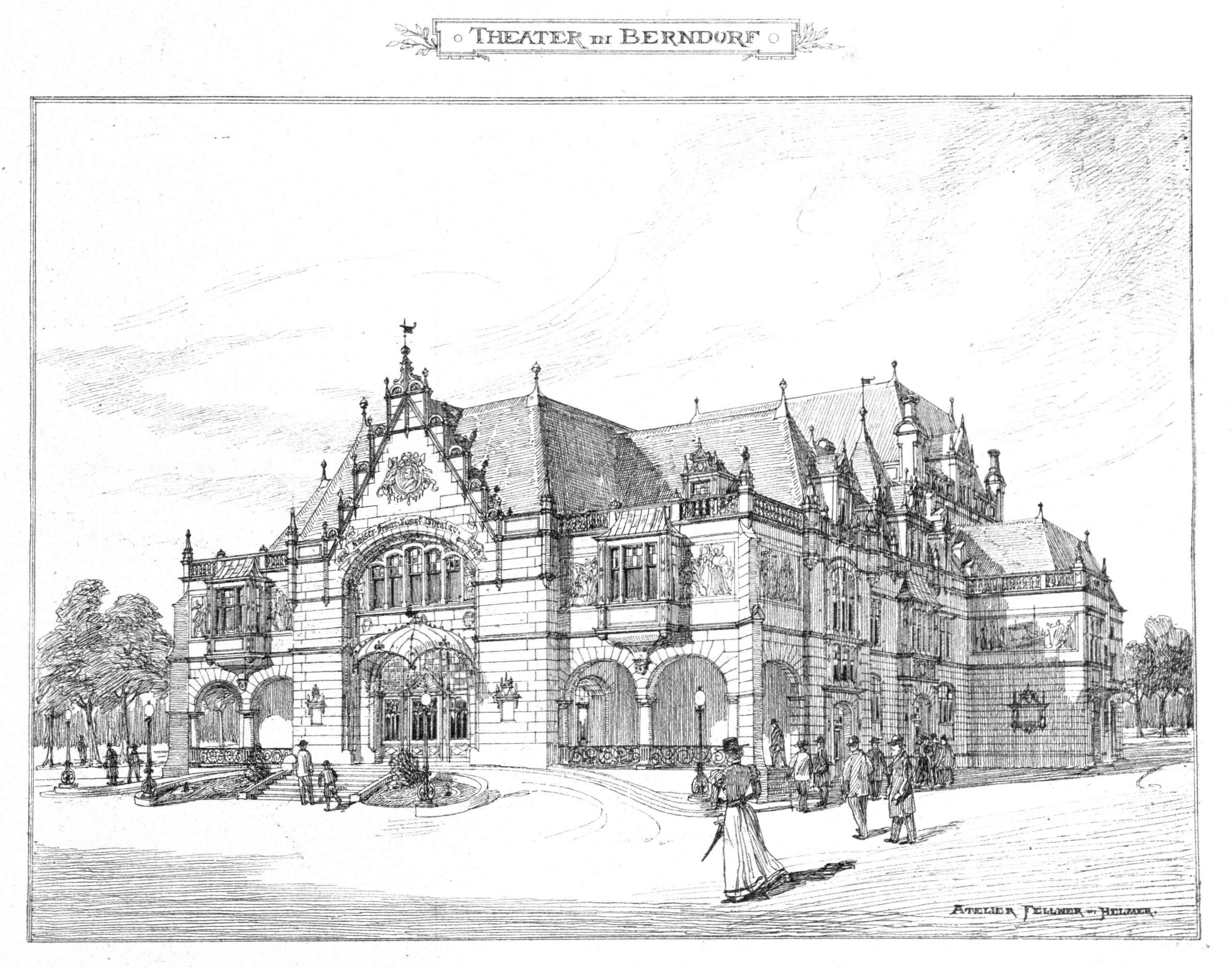 Theater Berndorf